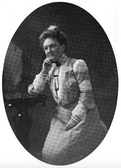 Clara Bradley Baker Wheeler Burdette Mrs. Robert J. Burdette Pasadena Vice-president, General Federation of Women's Clubs of the United States First President, Federation of Women's Clubs of California Photographer: Marceau URL